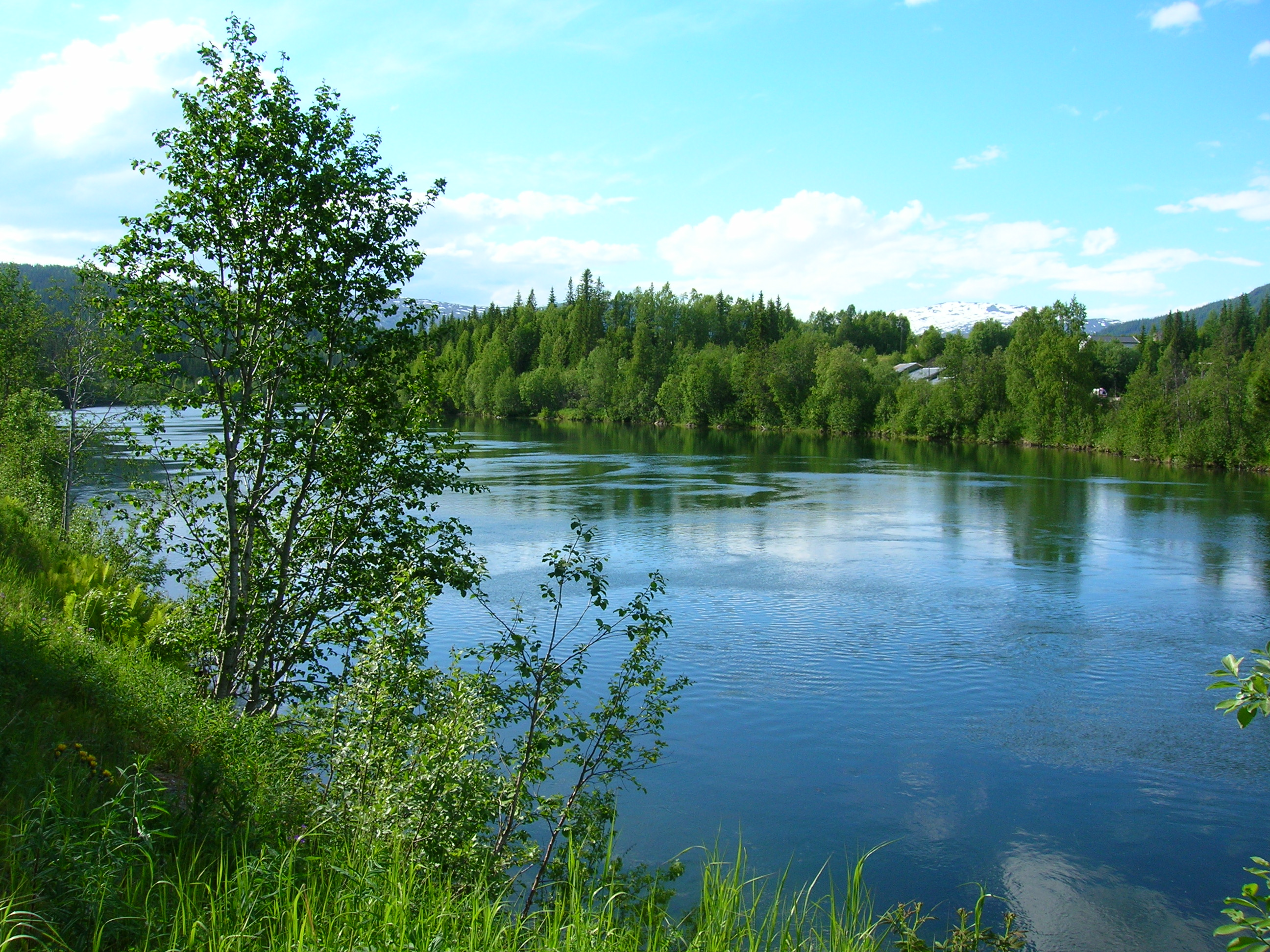 Langvassåga, west of its meeting point with the river Ranelva in Rana municipality, Nordland, Norway. Photo June 22, 2007 with a Nikon Coolpix 5600 5,1 Megapixel camera.